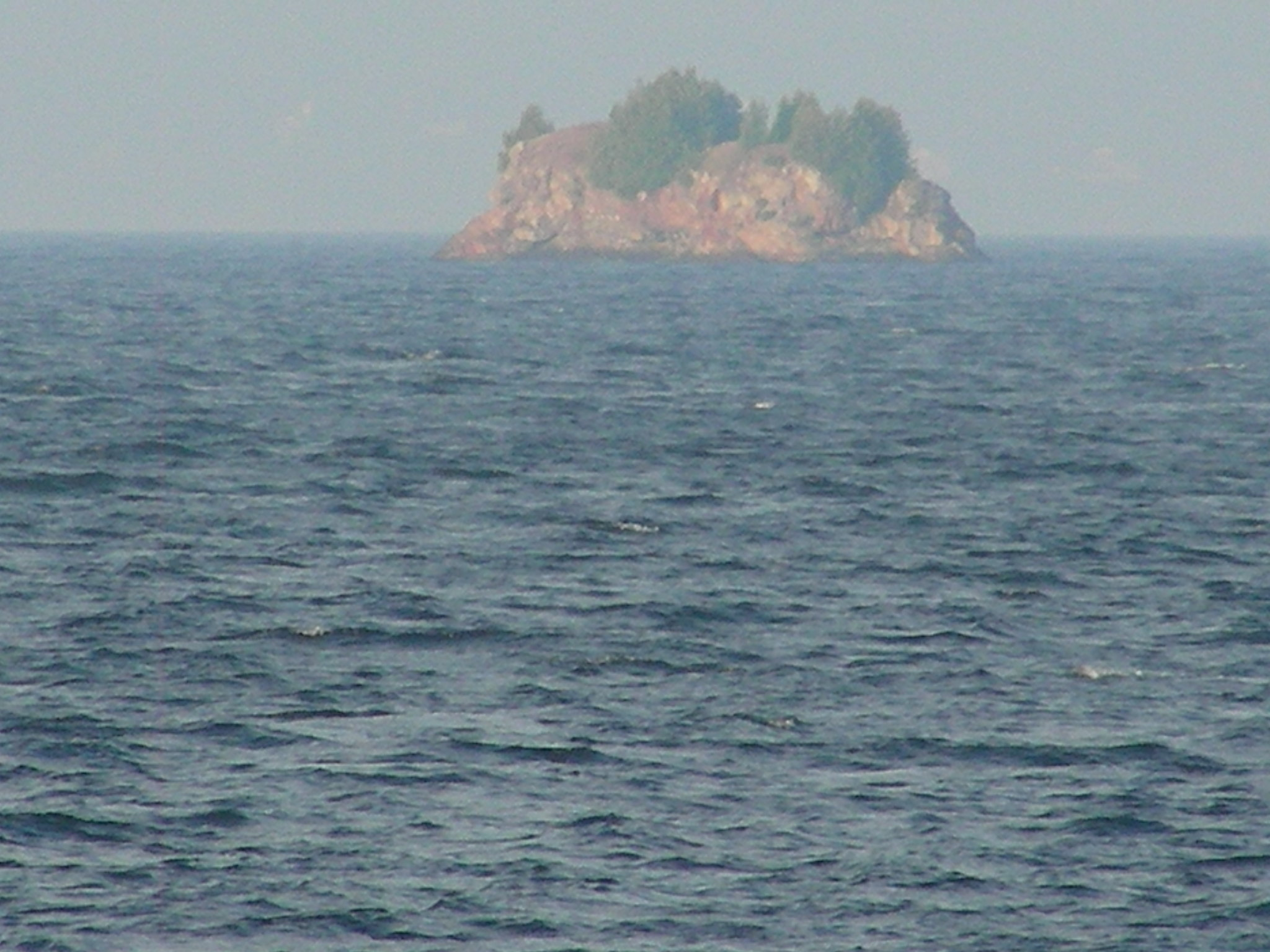 Carleton's Prize viewed from South Hero source jon higgins, self-made